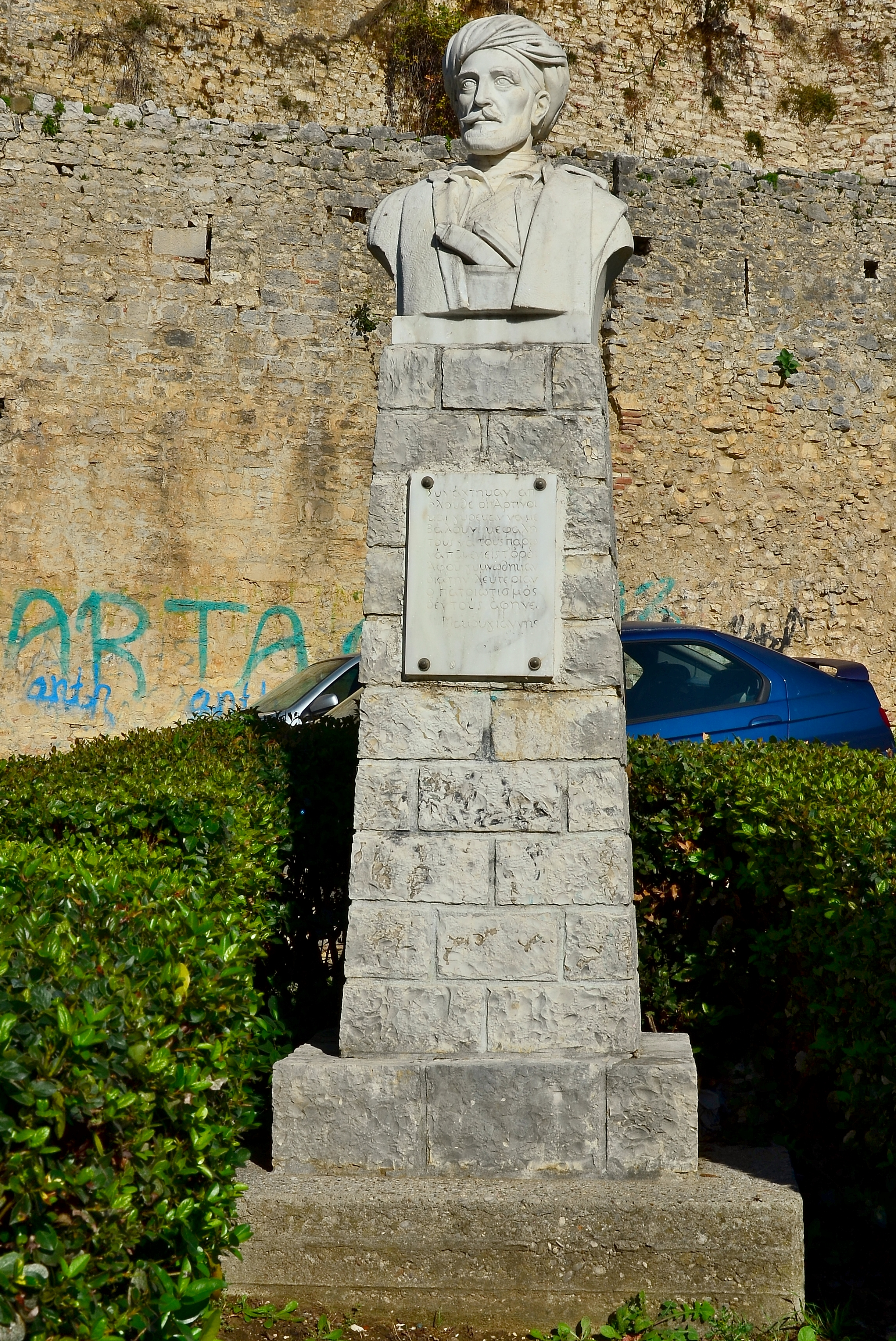 Ioannis Makrygiannis statue in Arta, Greece